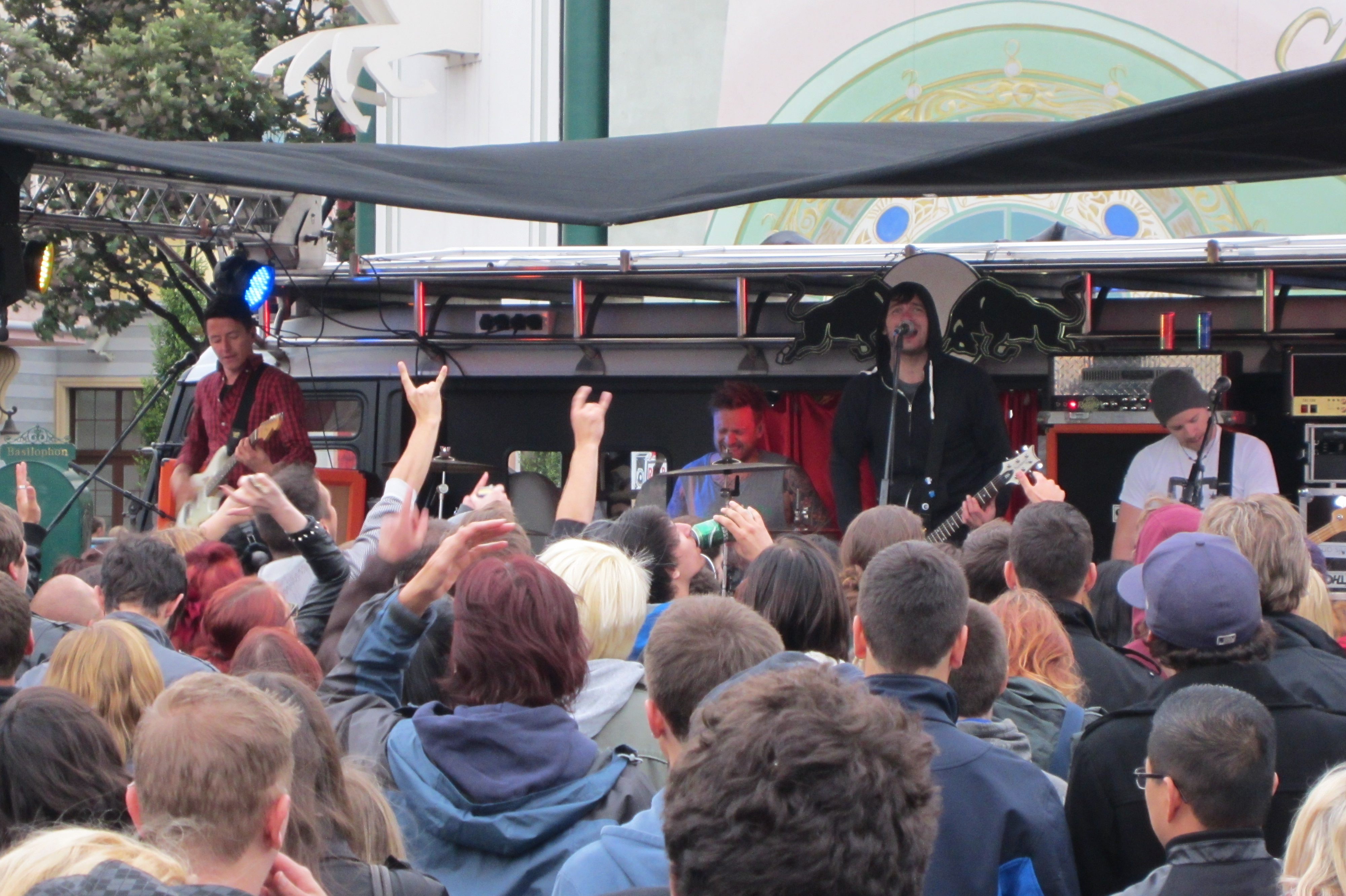 3 Feet Smaller performing at the Wurstelprater (part of the Prater) in Vienna, Austria.